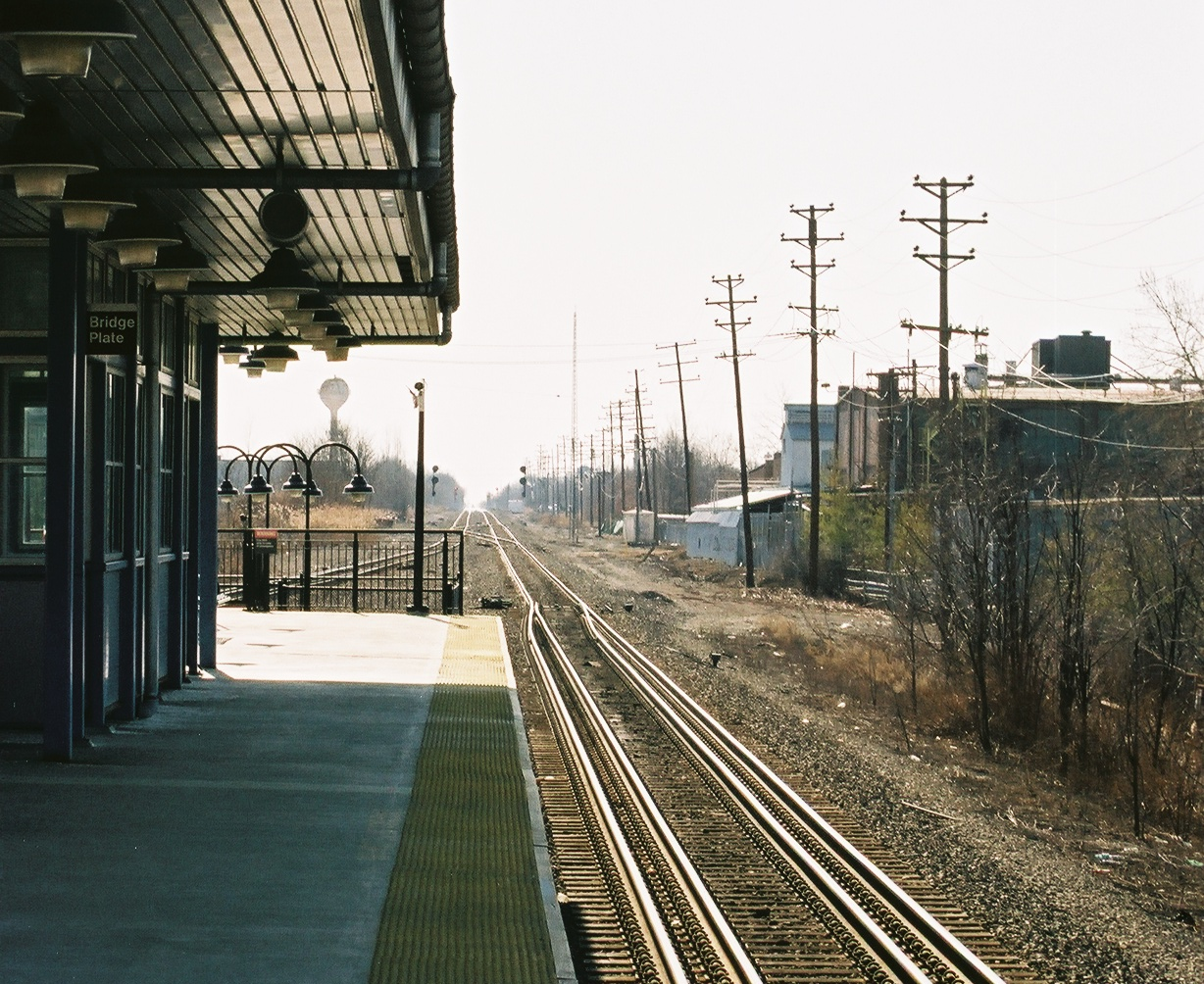 Image of gauntlet track on Conrail Shared Assets Operations Lehigh Line, at New Jersey Transit Raritan Valley Line.